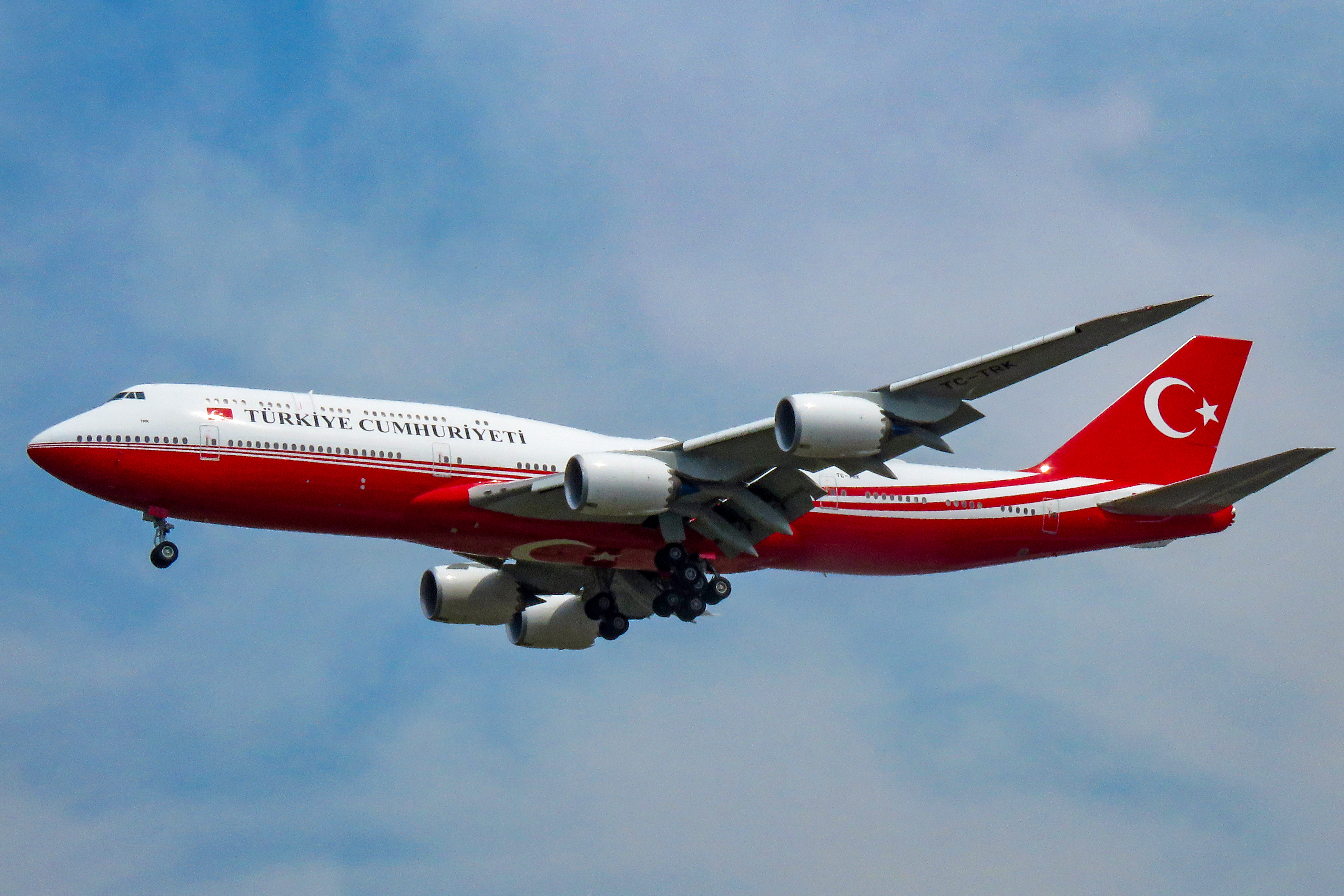 TRK1 from Tokyo-Haneda. Recep Tayyip Erdoğan has just made an official visit to Japan after the G20 Osaka summit, and he arrived here this afternoon for a half-day visit to China. Fortunately he didn't stay here for long...